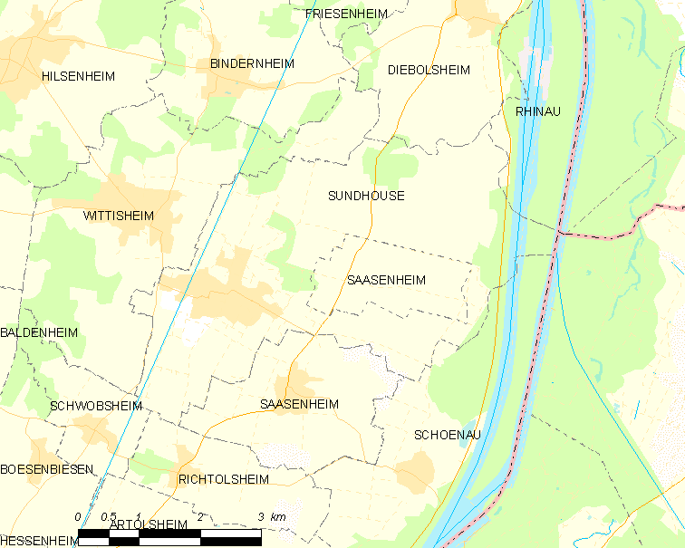 Map of French municipality